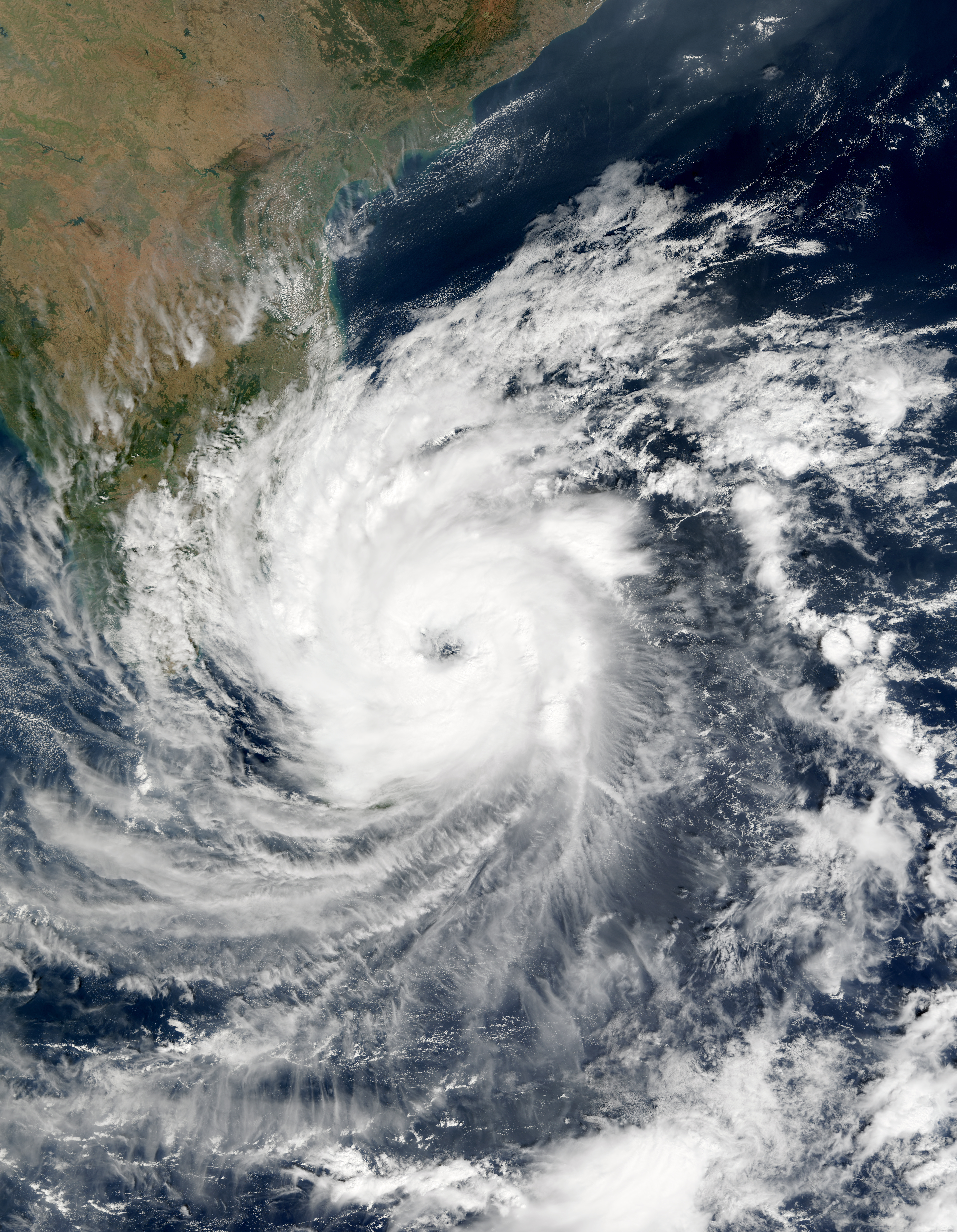 Cyclone 4B near landfall on Sri Lanka on December 26, 2000